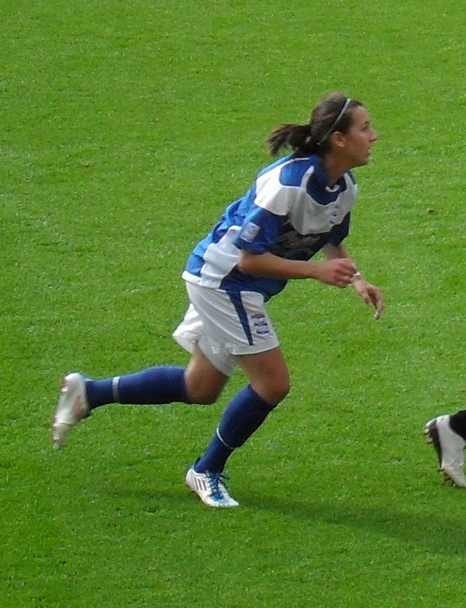 Birmingham City LFC footballer Dunia Susi playing at Doncaster Rovers Belles LFC's Keepmoat Stadium